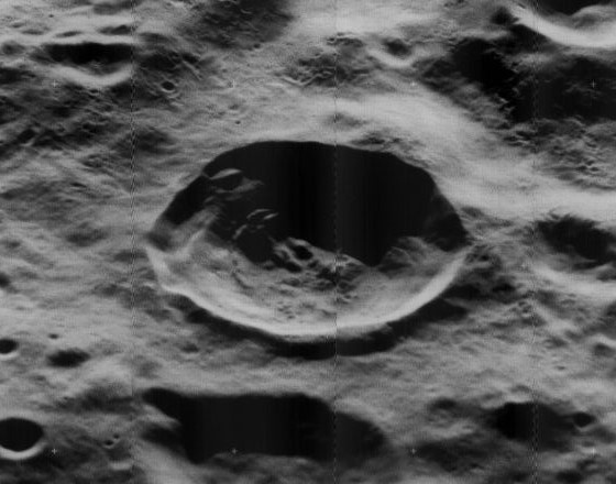 Oblique view of Das (crater), on the far side of the moon, facing west.